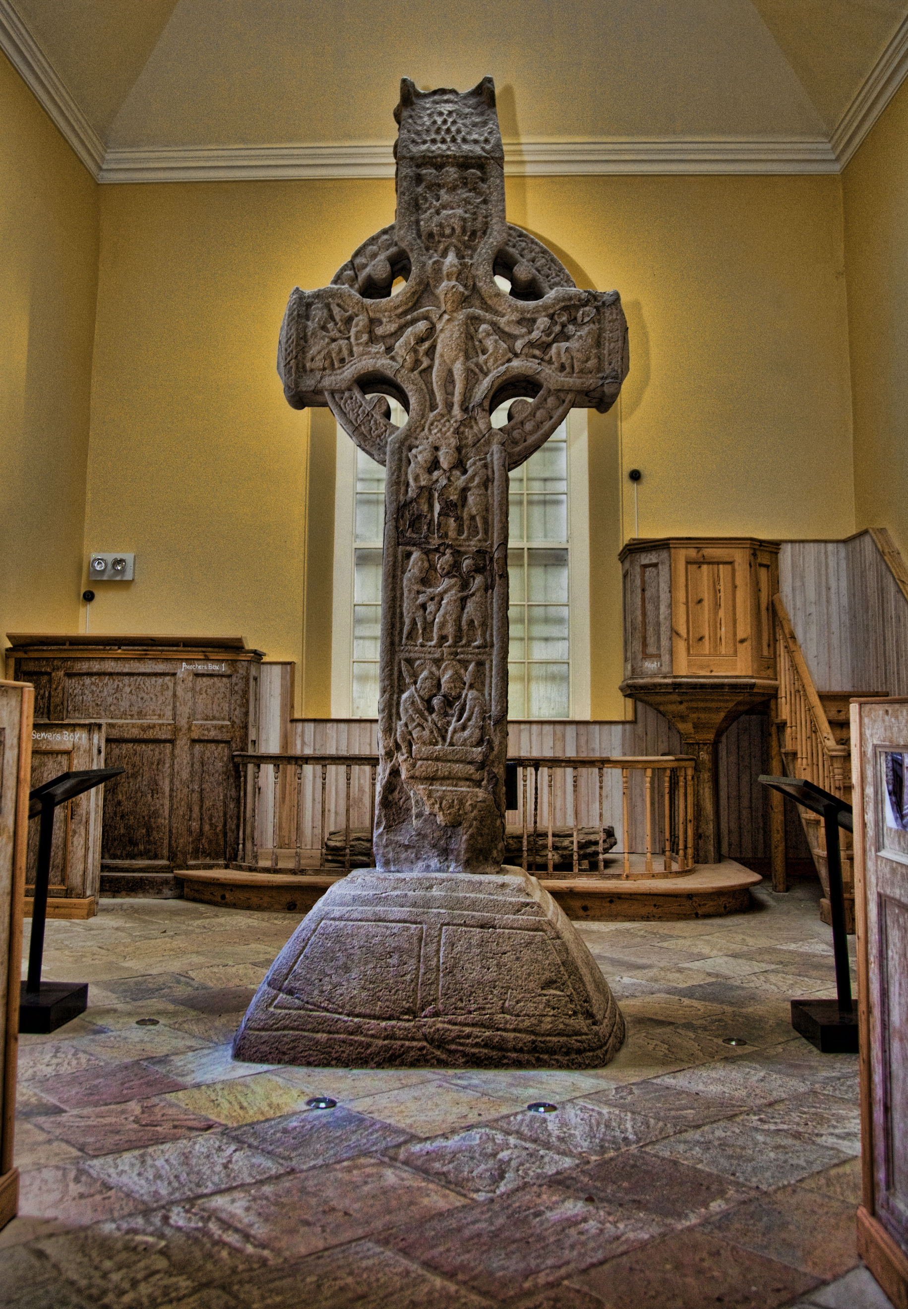 Durrow High Cross